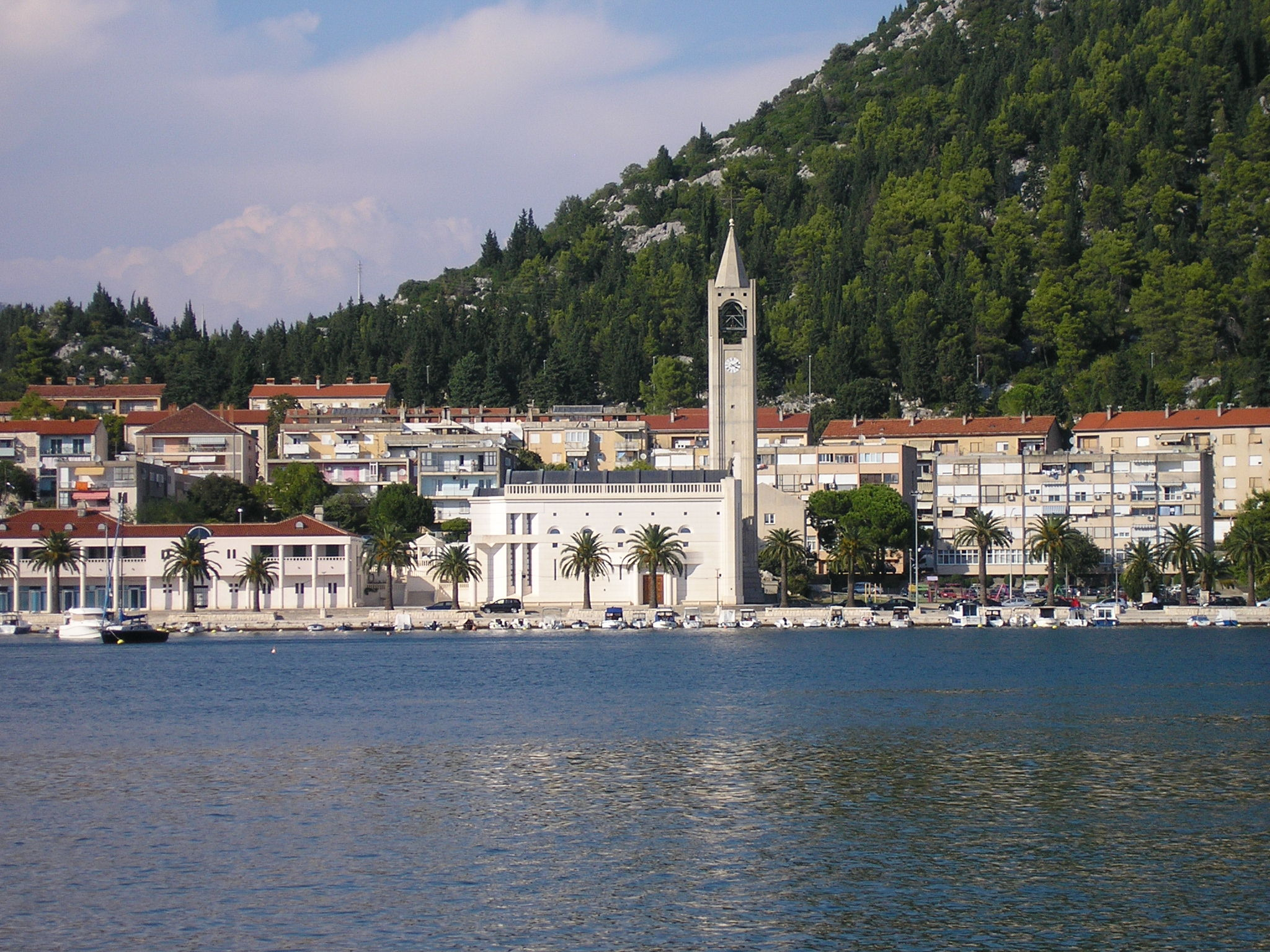 Queen of Heaven and Earth church in Ploče